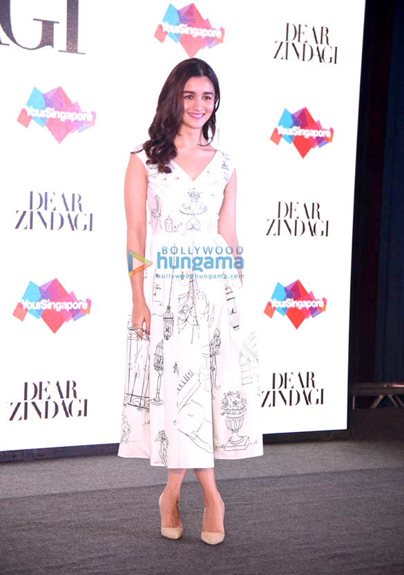 Alia Bhatt at the press conference of Singapore Tourism Board in 2016